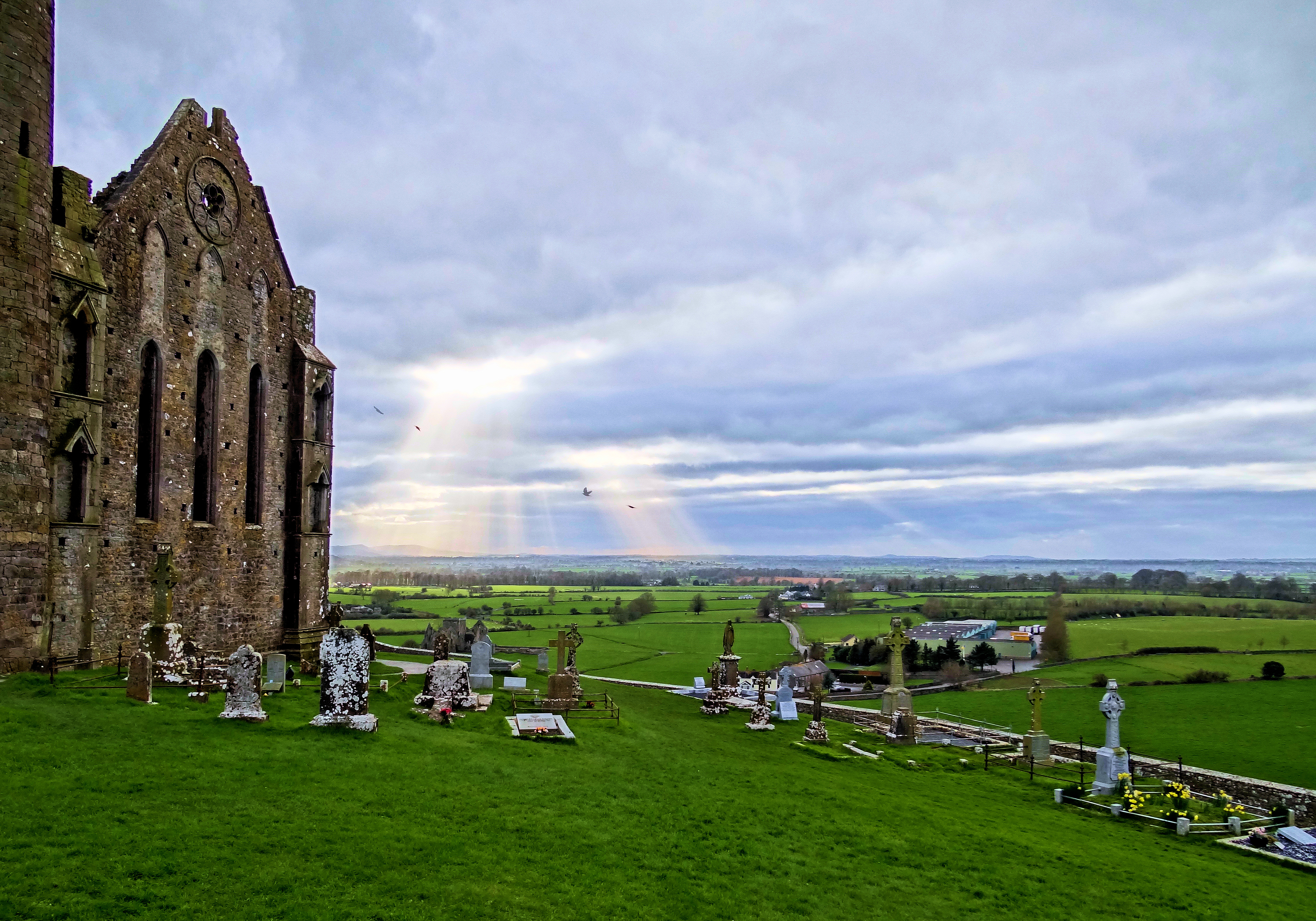 A view of parts of the Rock of Cashel towards the west, with some old graves on the northern side of the ruins.